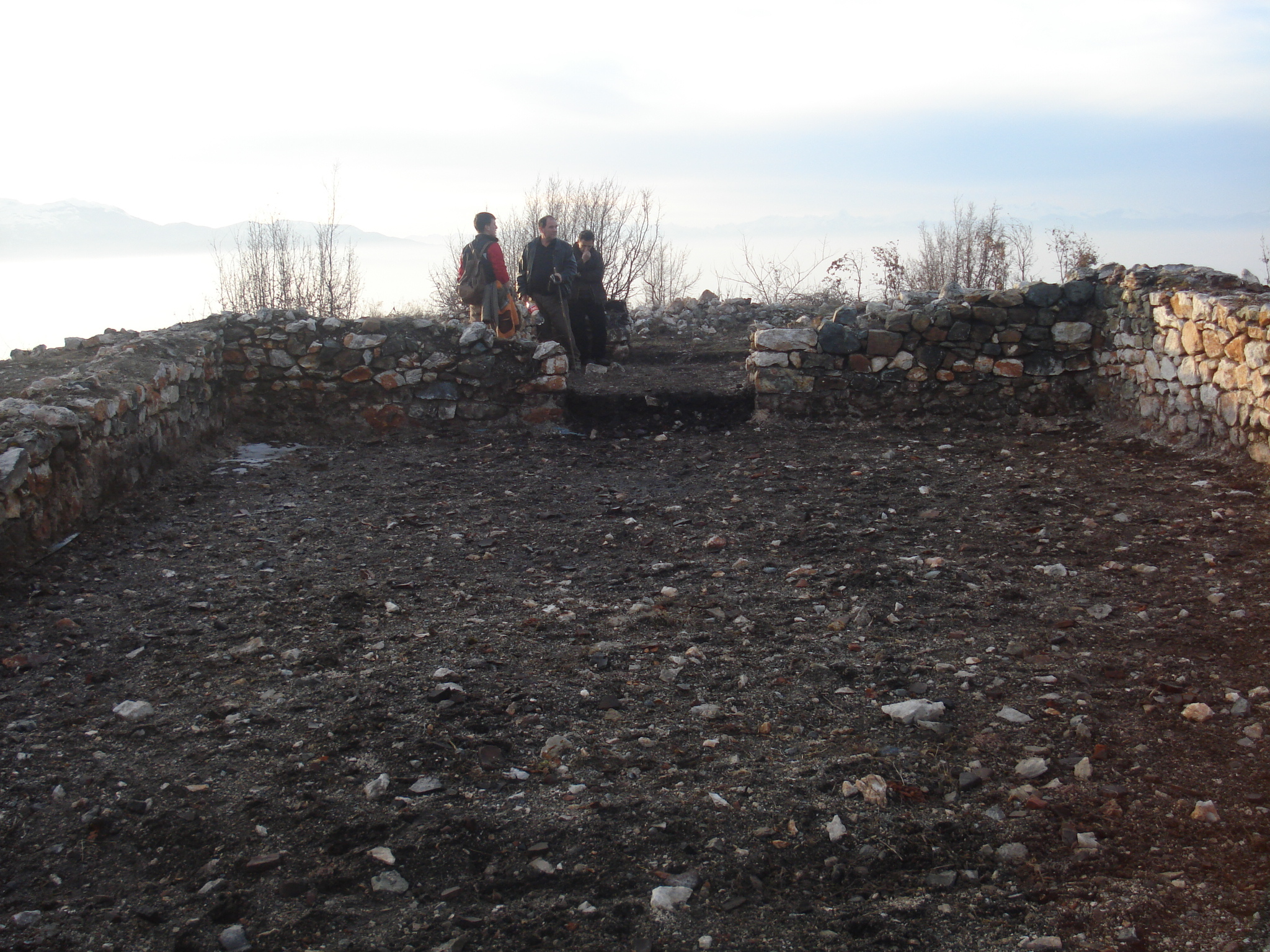 Kalaja kabashit